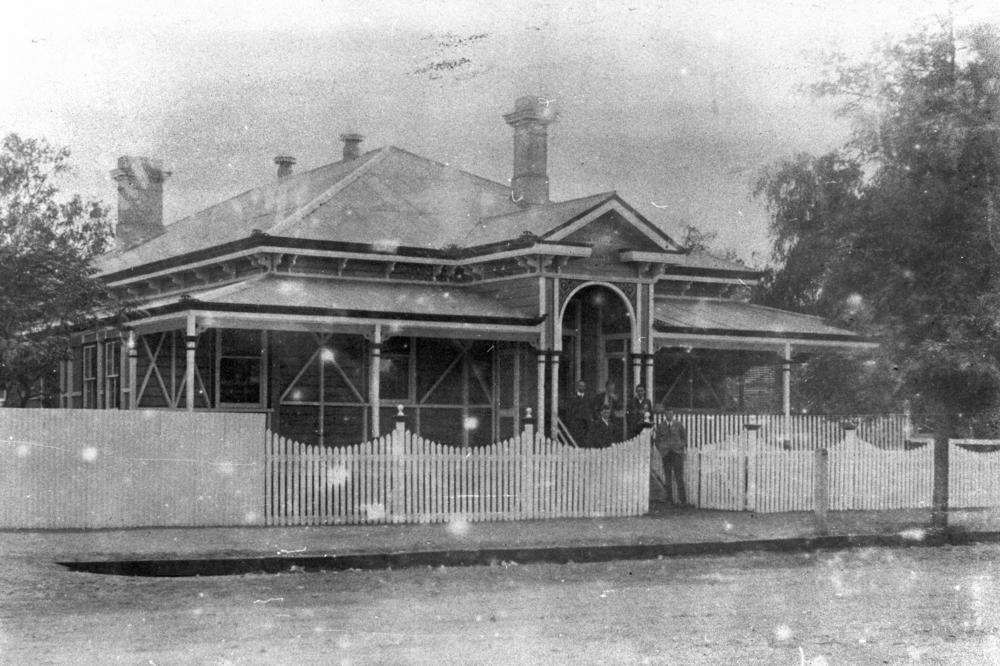 Queensland National Bank in Charleville — in 1915. The Queensland National Bank, at 87 Alfred Street, was erected in 1888. This was the second building for the bank, the first branch being opened in October 1881. The architect was F. D. G. Stanley and the builder was A. Anderson. The cost was about 2000 pounds. In 1942 the bank moved to new premises in Alfred Street. The building is now the Historic House Museum, an historic house museum in Australia, run by the Charleville District Historical and Cultural Sociey. (Description supplied with photograph).